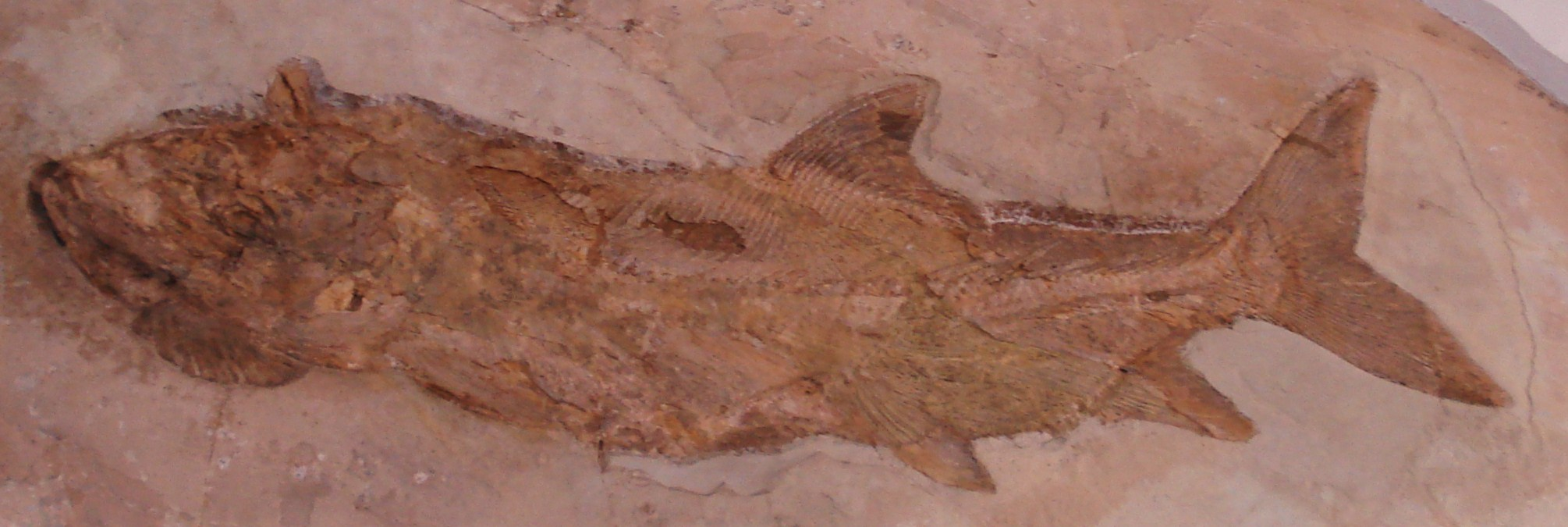 fossil of caturus giganteus